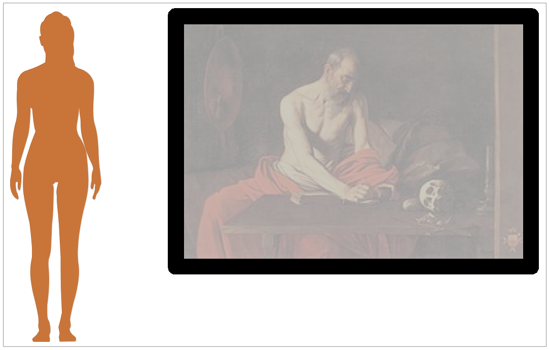 Indicative size comparison between an average-sized woman (165 cm) and the painting (117 × 157 cm, frame not included)